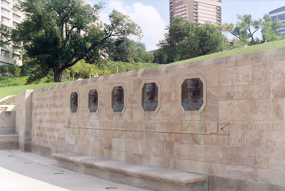 Victory Memorial in Kansas City, Missouri with bas-reliefsf.l.t.r. David Beatty, Ferdinand Foch, John Pershing, Armando Diaz and Jules Jacques de Dixmude